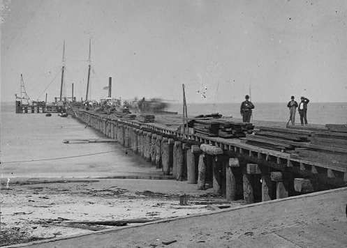 Dock built by Union troops on Hilton Head Island, South Carolina, United States.